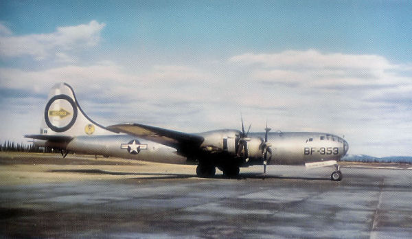 B-29 44-61671 painted to look like B-29-40-MO Superfortress 44-27353 The Great Artiste of the 509th Bomb Group - Walker AFB New Mexico. The original was scrapped.